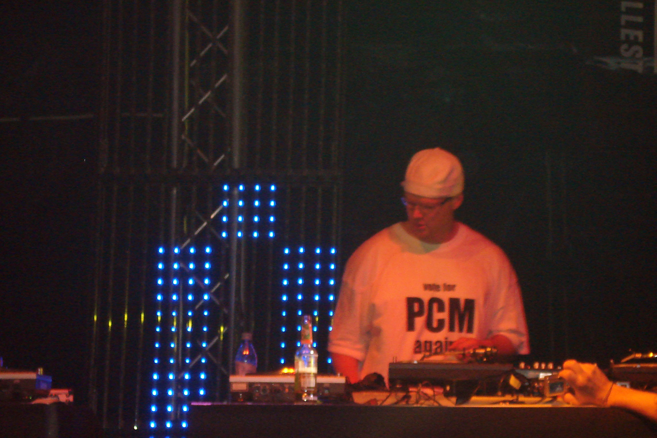 Jaleel of "Tefla und Jaleel"